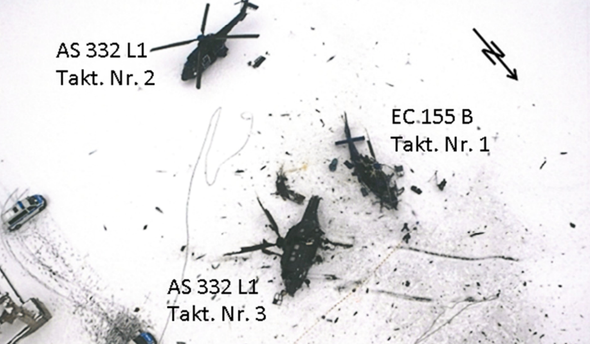 Aerial photograoh of the 2013 Berlin helicopter crash.